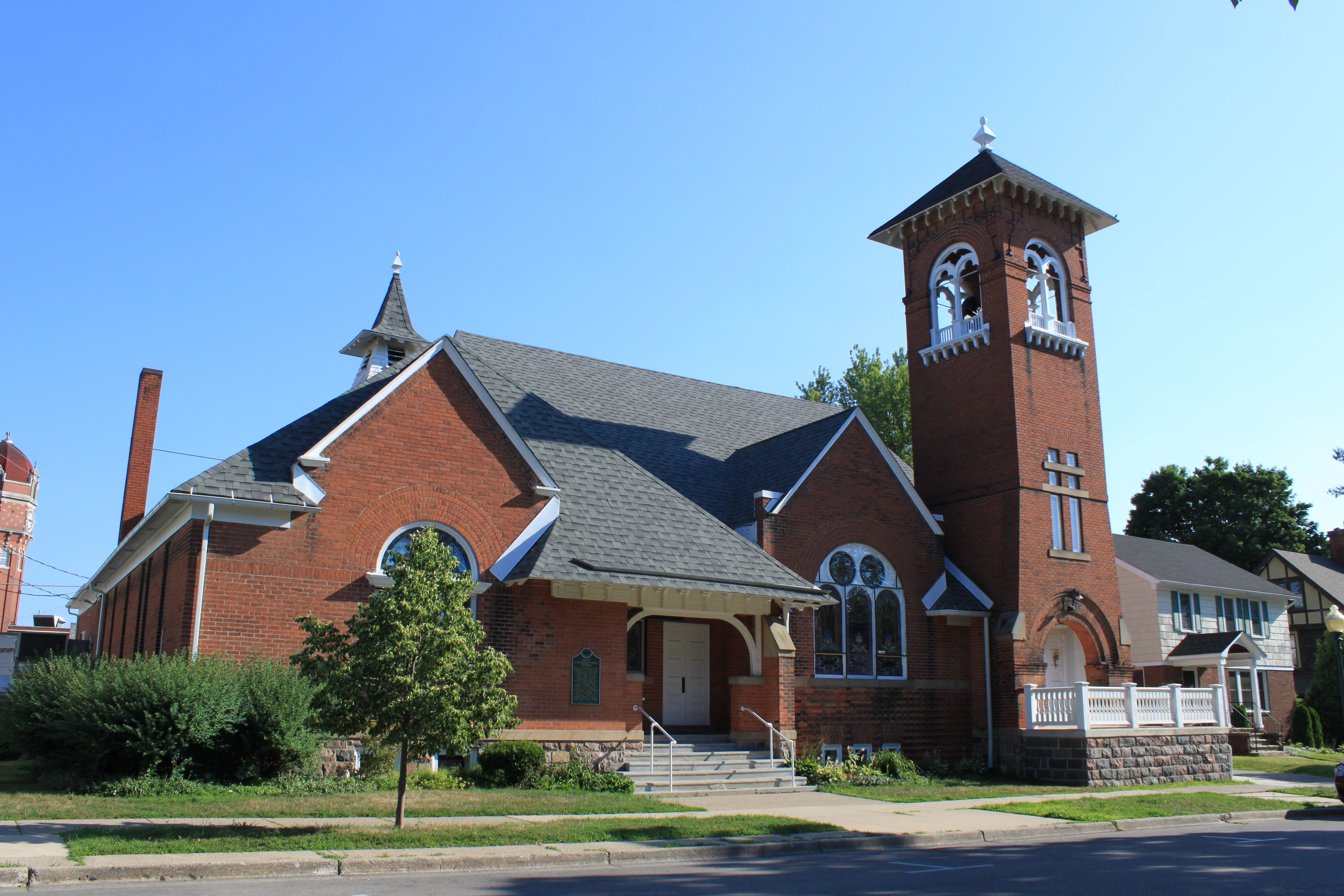 First Congregational Church of Chelsea, 121 Middle Street, Chelsea, Michigan. The building is a Registered Michigan State Historic Site.